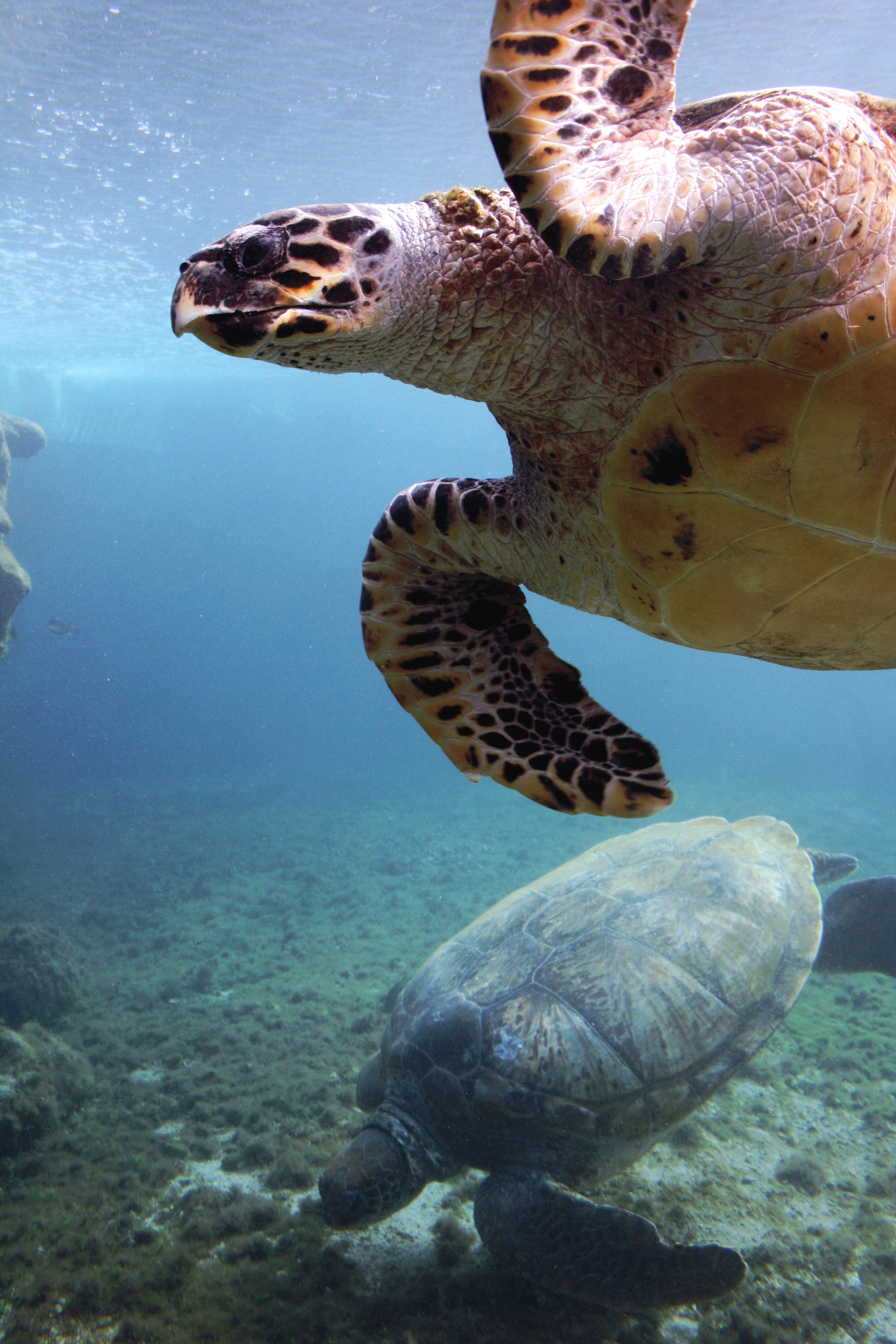 Hawksbill turtle (top) and green sea turtle (bottom) in Kélonia, on Réunion island